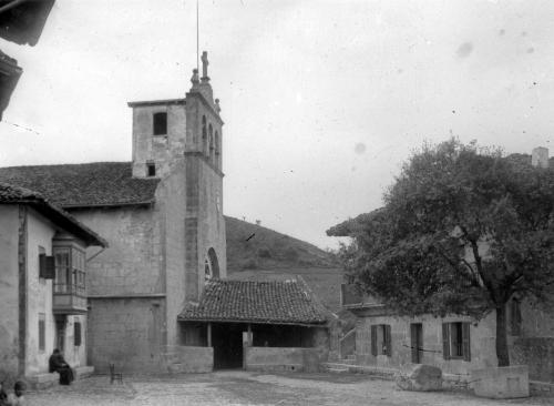 Amoroto